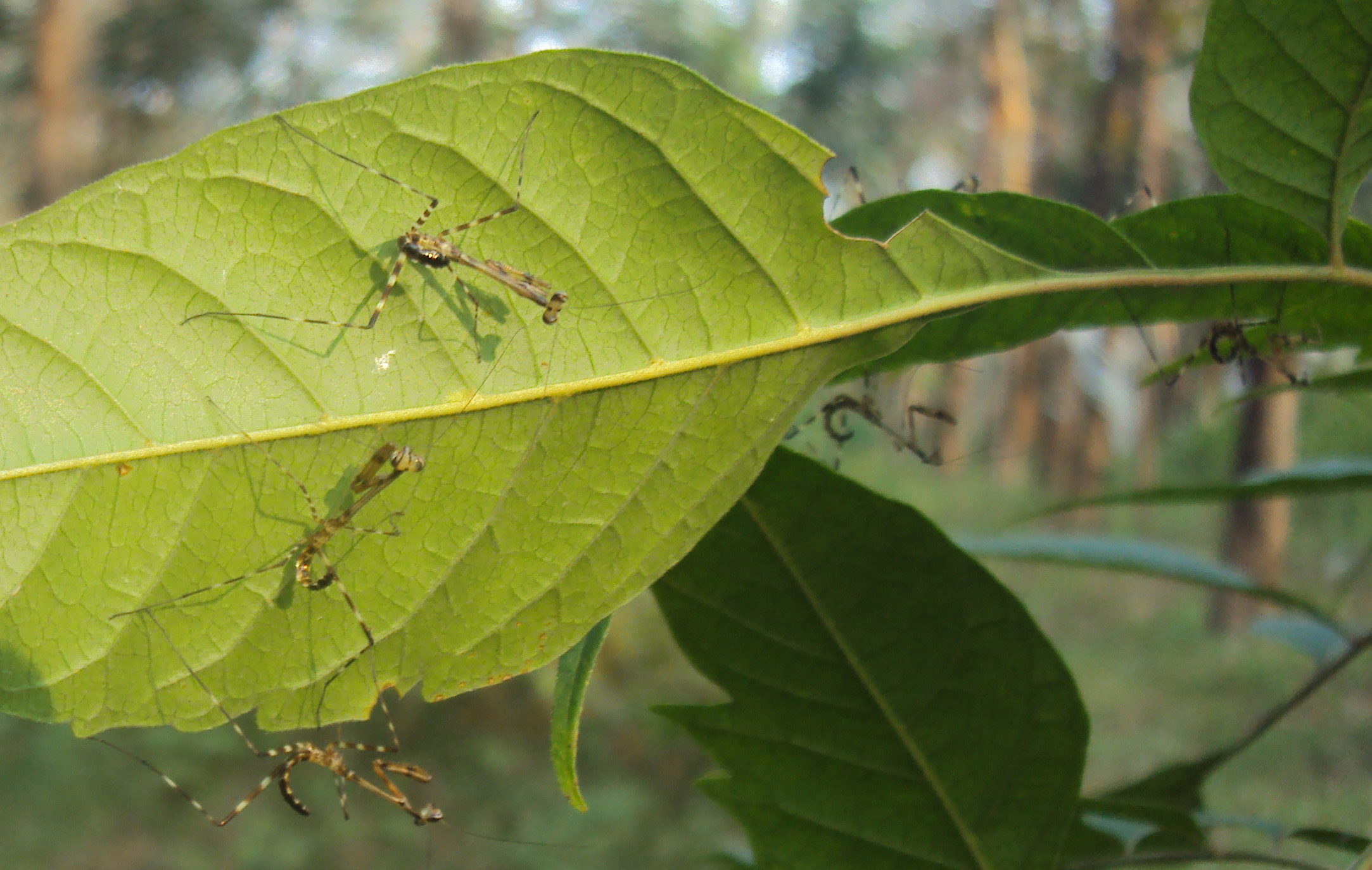 Little Praying Mantises on the leaves of Chukrasia tabularis. Shell of opened eggs can be seen